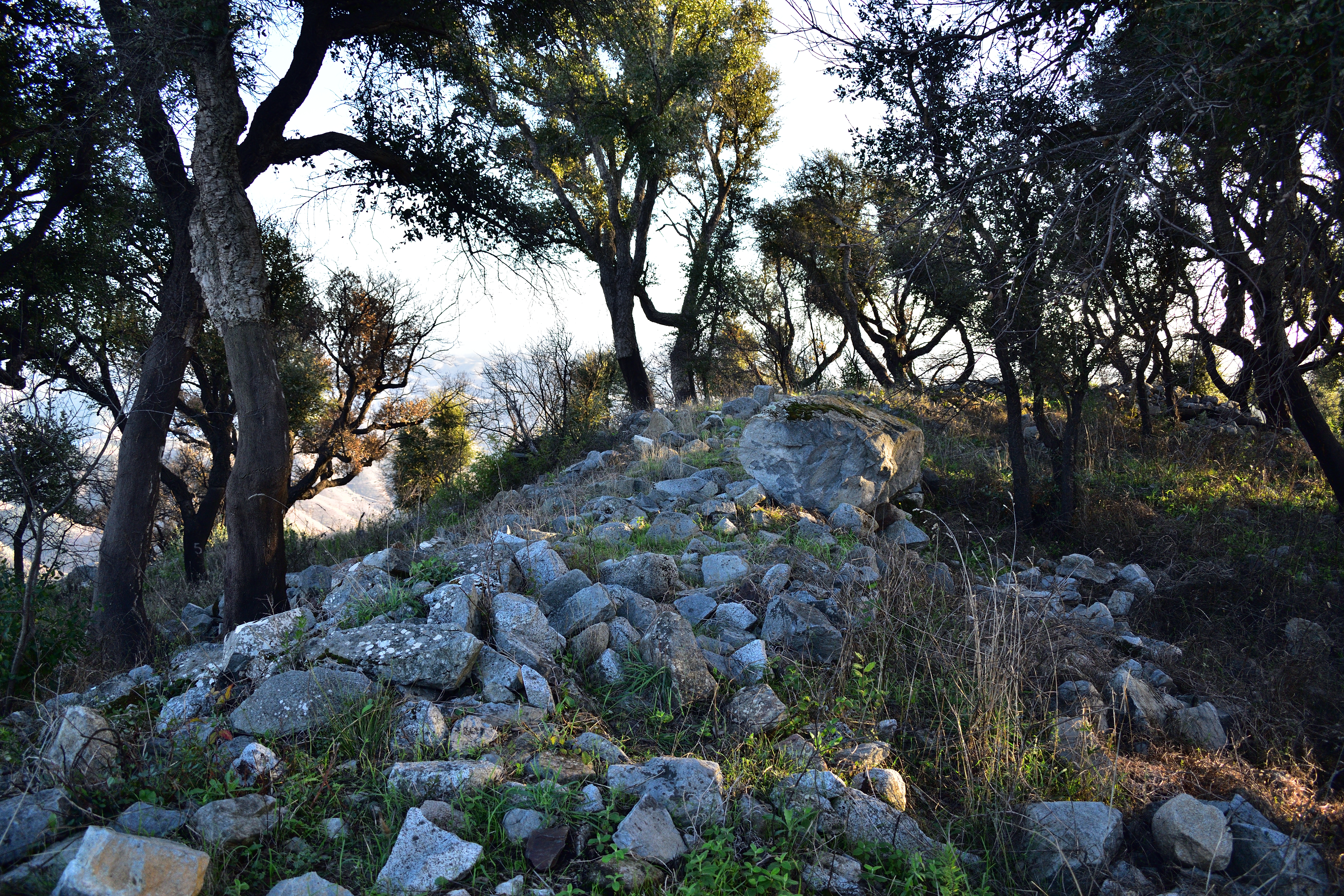 Castle of Alferce, in the region of Algarve, in Portugal.